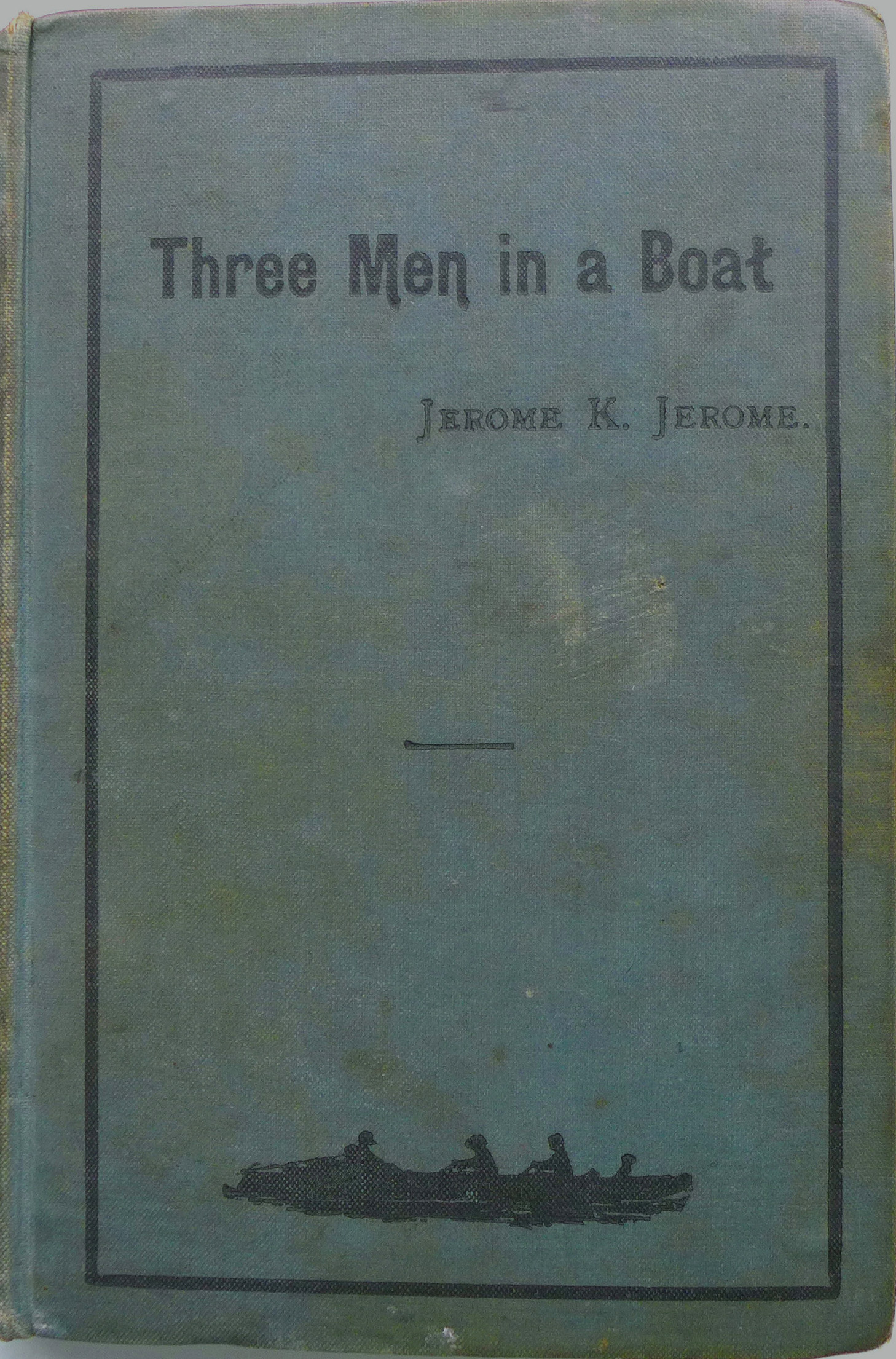 The cover of the first edition of Jerome K. Jerome (1889) Three Men in a Boat: (To Say Nothing of the Dog), Bristol: J.W. Arrowsmith OCLC: 213830865.